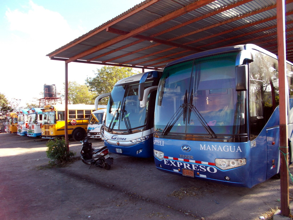 Express long-distance bus in Nicaragua